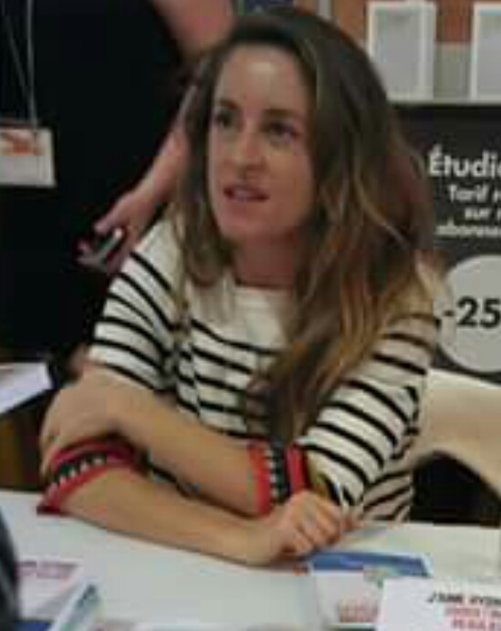 Christine Beaulieu photographed in Montréal , Québec, Canada at the Salon du livre de Montréal 2017.